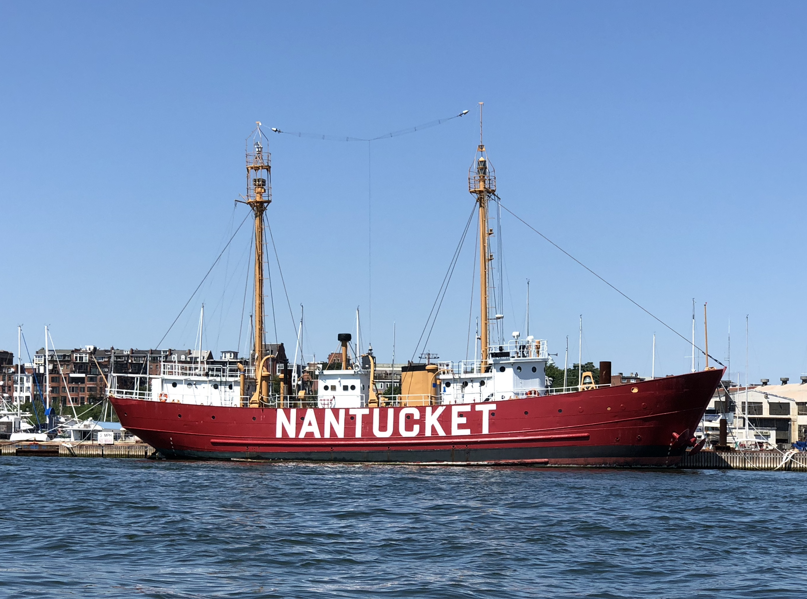 Lightship Nantucket (LV-112) in Boston harbor July 2018 cropped